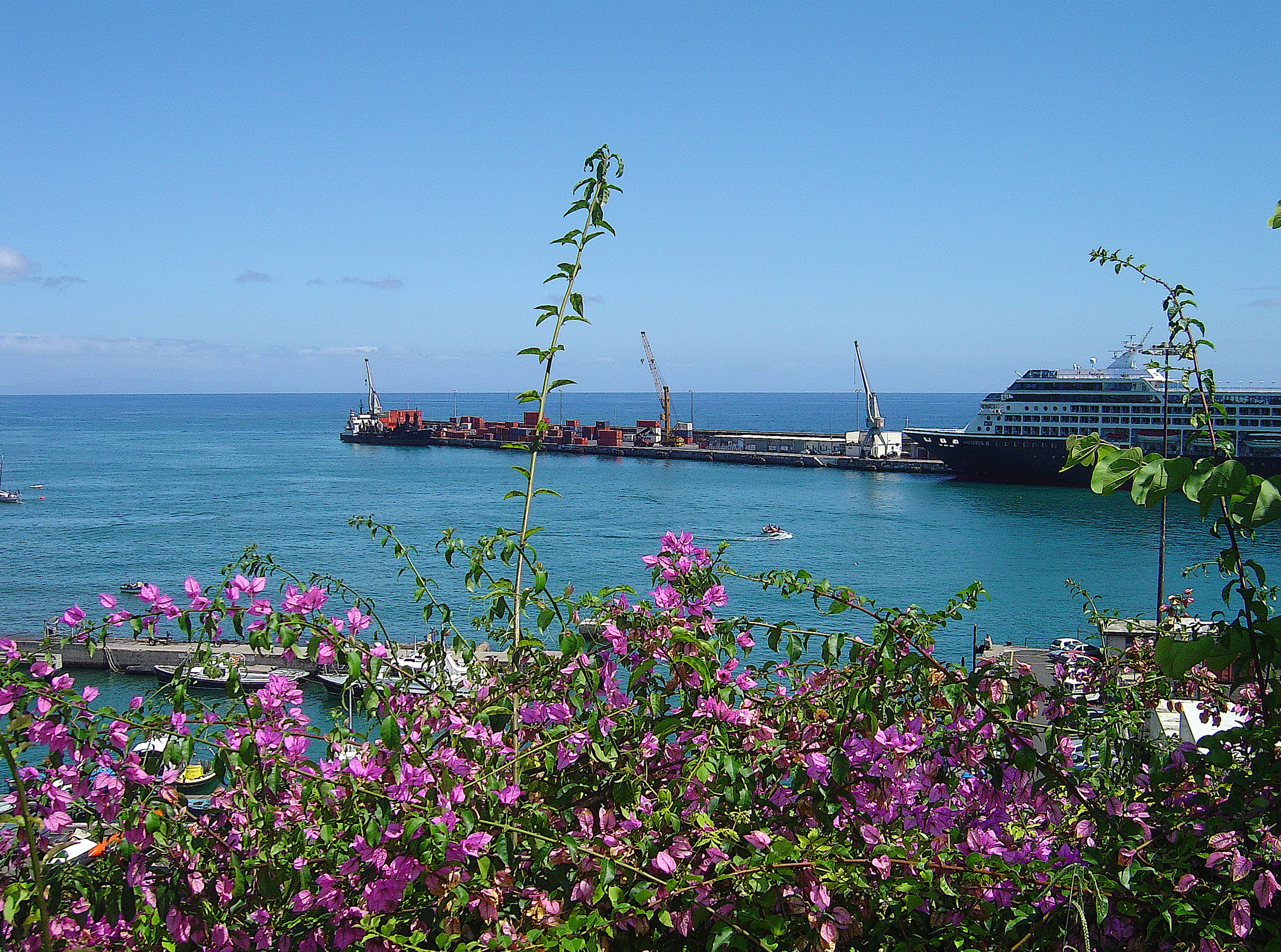 Minerva II off Funchal, Madeira Islands, Portugal